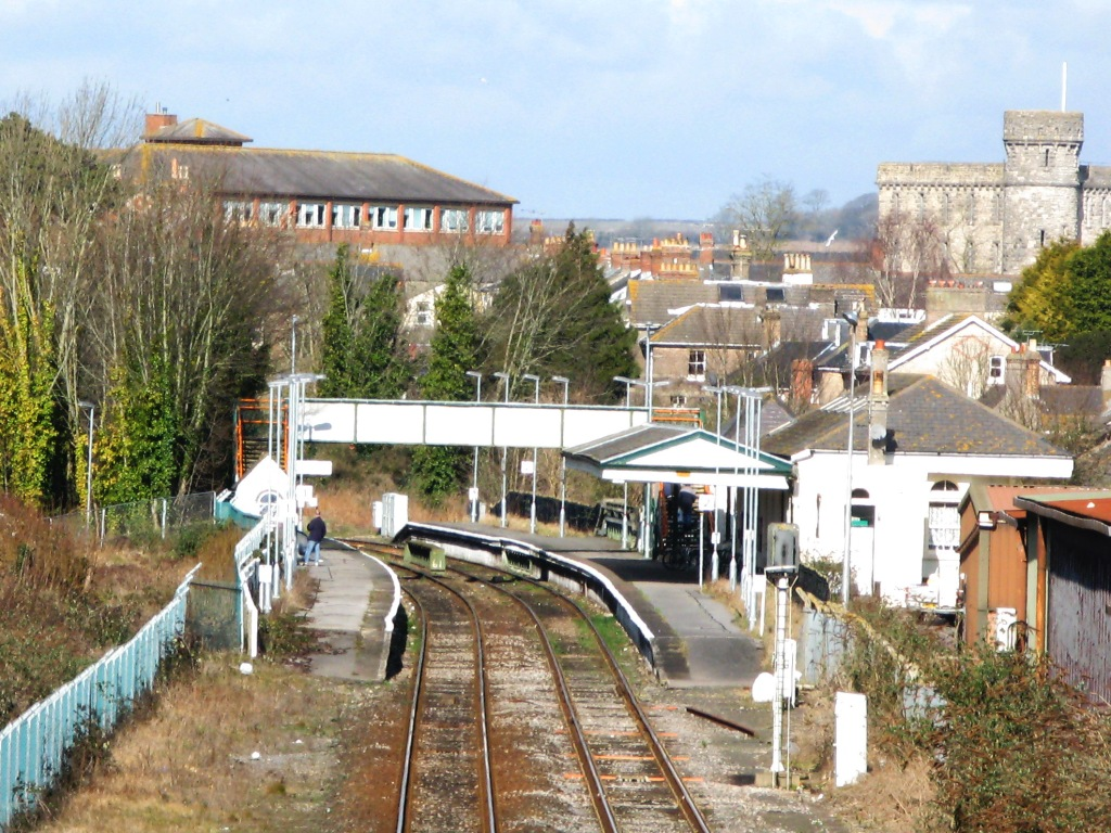 Dorchester West station in Dorset, England, seen from the south near Dorchester Junction.